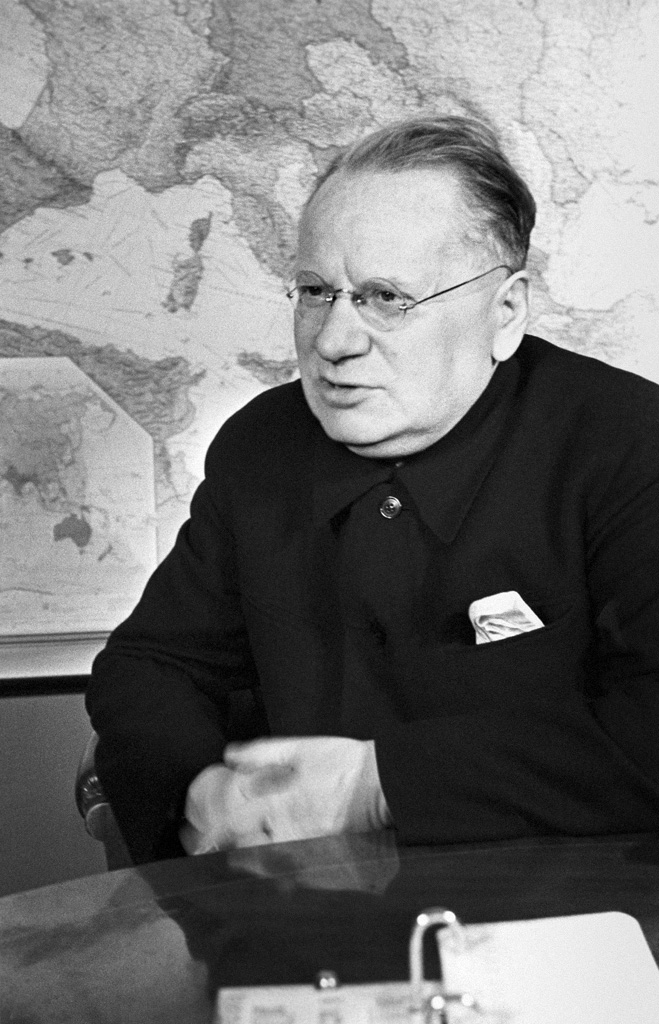 “Soviet diplomat Maxim Litvinov”. Maxim Litvinov (1876-1951), a Soviet diplomat, statesman and party activist, Communist Party member from 1898, People's Commissar of Foreign Affairs (1930-1939).